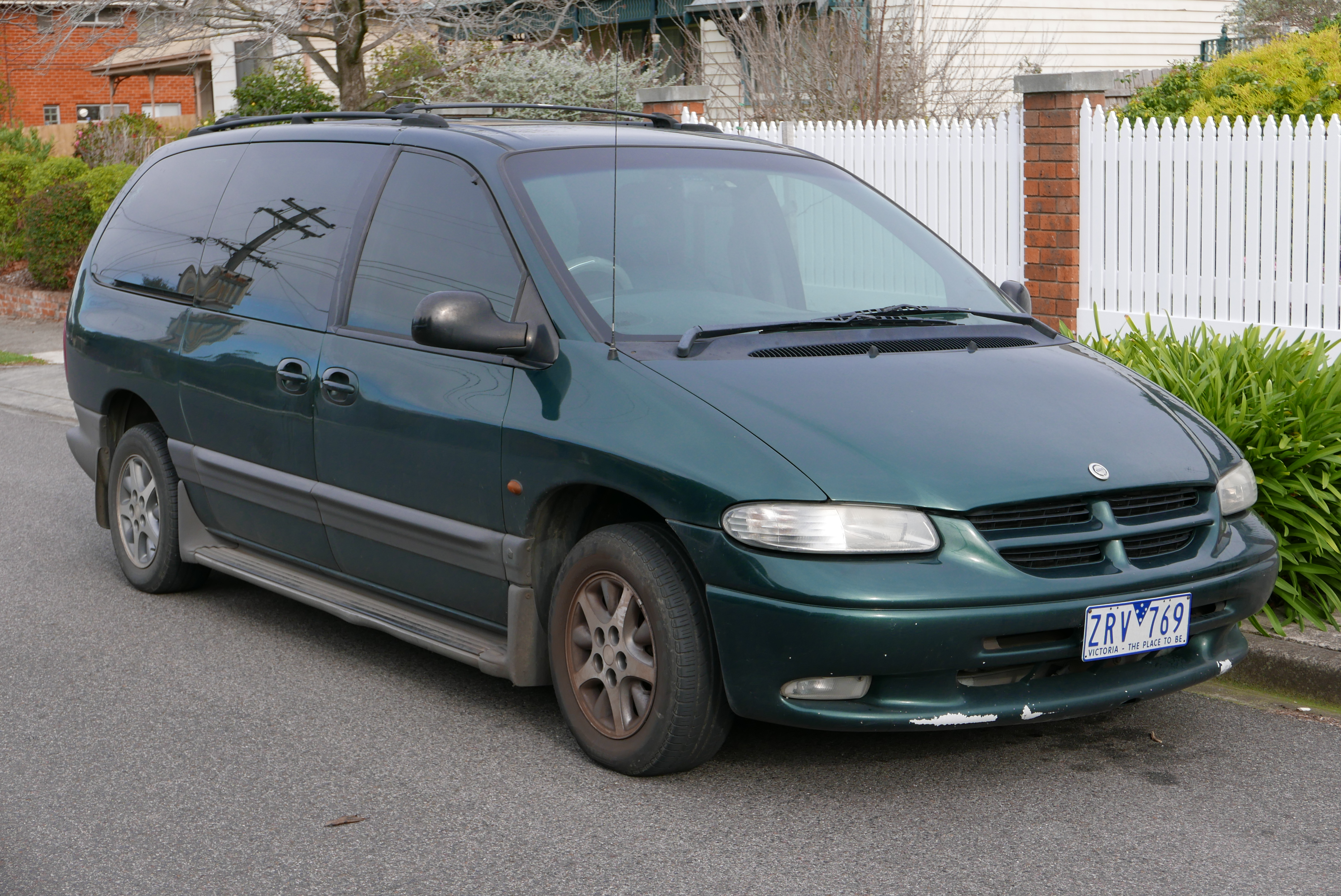 1998 Chrysler Grand Voyager (GH) LE van. Photographed in Ivanhoe, Victoria, Australia. Vehicle registration enquiry results Jurisdiction Victoria Registration ZRV769 Chassis code 1C4GHB4R0WU551669 Engine code WU551669 Compliance date 1998-09 Year of manufacture 1998